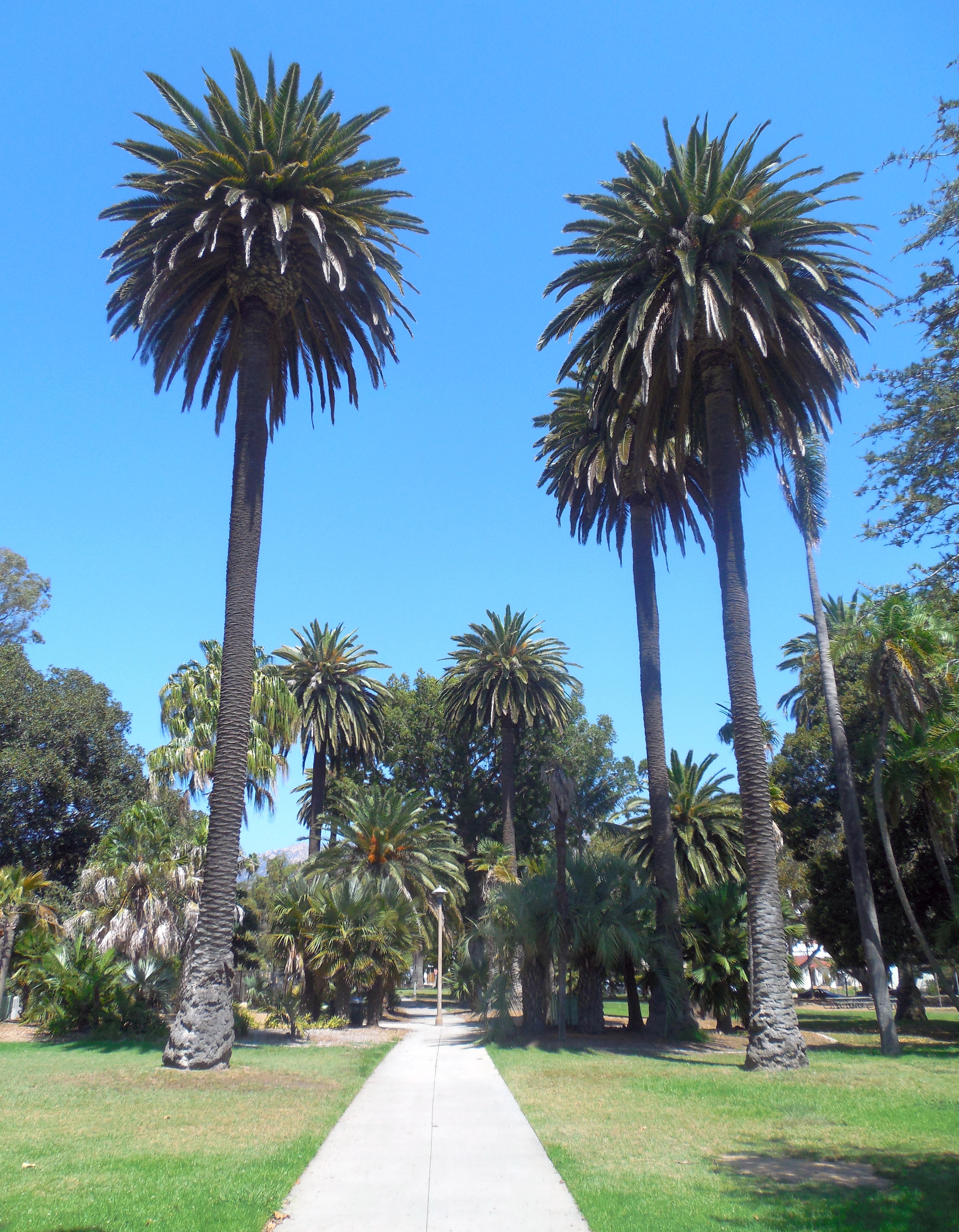 Northward view of Canary Island Date Palms in Alameda Park off of East Sola St., Santa Barbara, California, 2017